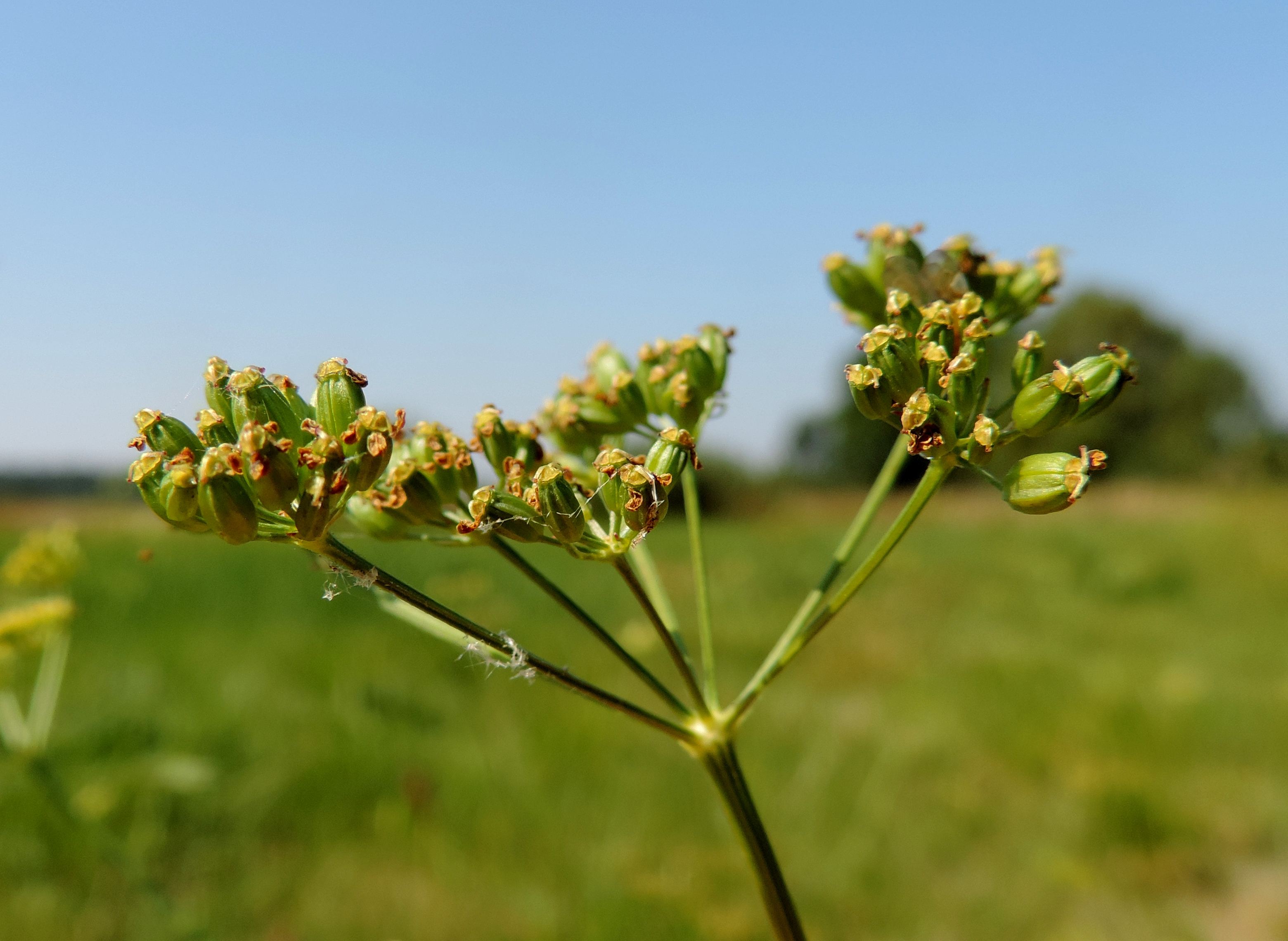 Silaum silaus. Wet meadows in Odra river valley near Czerwieńsk, W Poland